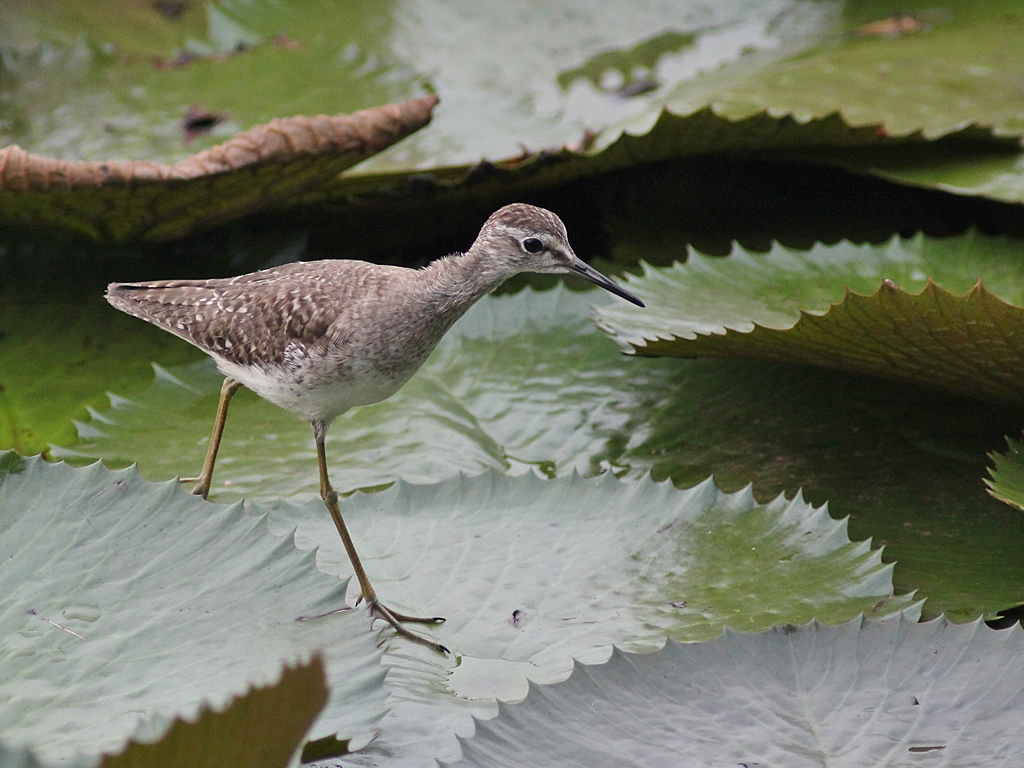 The Wood Sandpiper breeds in subarctic wetlands from the Scottish Highlands across Europe and Asia. They migrate to Africa, Southern Asia, particularly India, and Australia. This bird is usually found on freshwater during migration and wintering. They forage by probing in shallow water or on wet mud, and mainly eat insects and similar small prey.